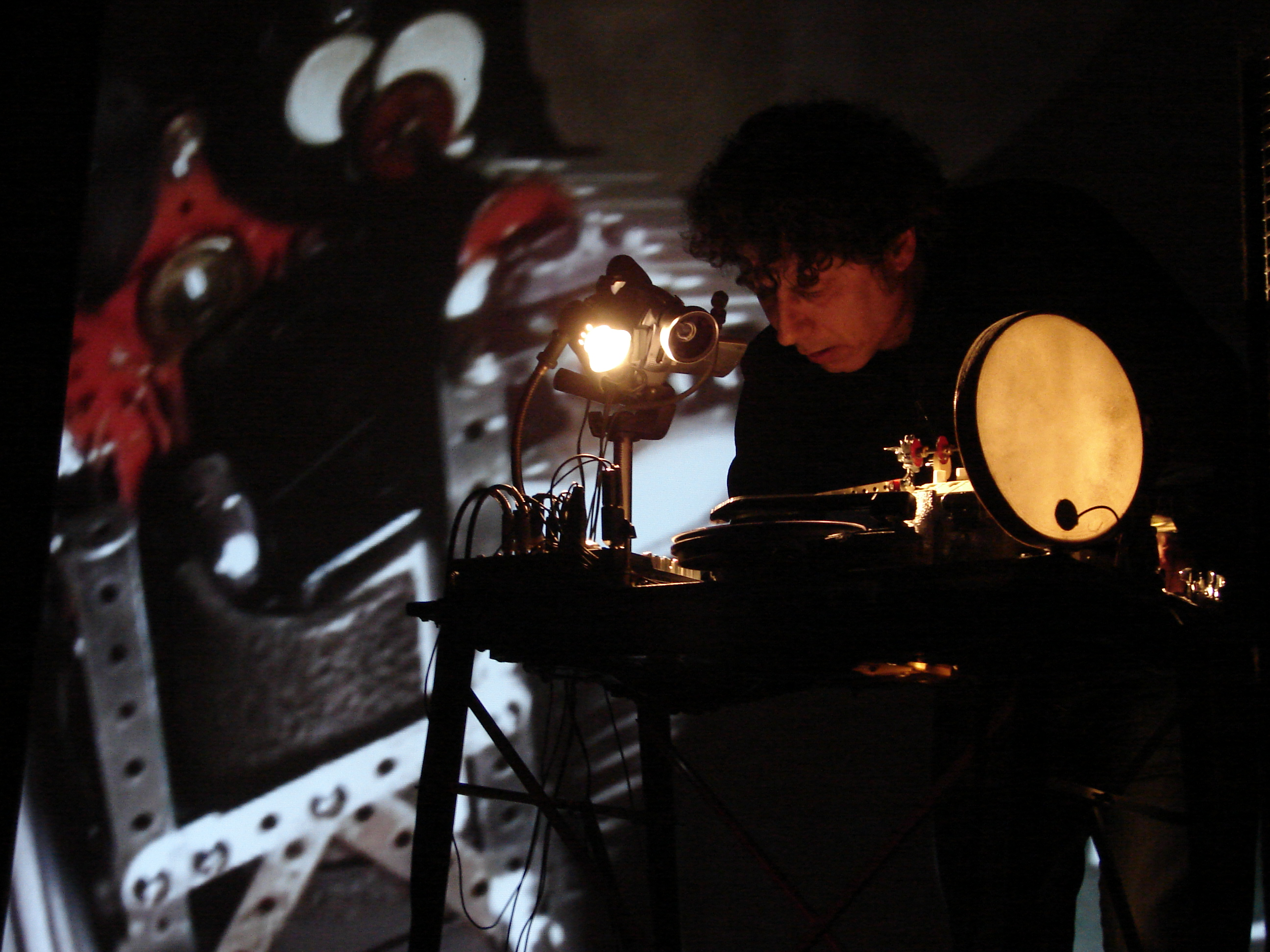 Pierre Bastien @ Havenkwartier Deventer